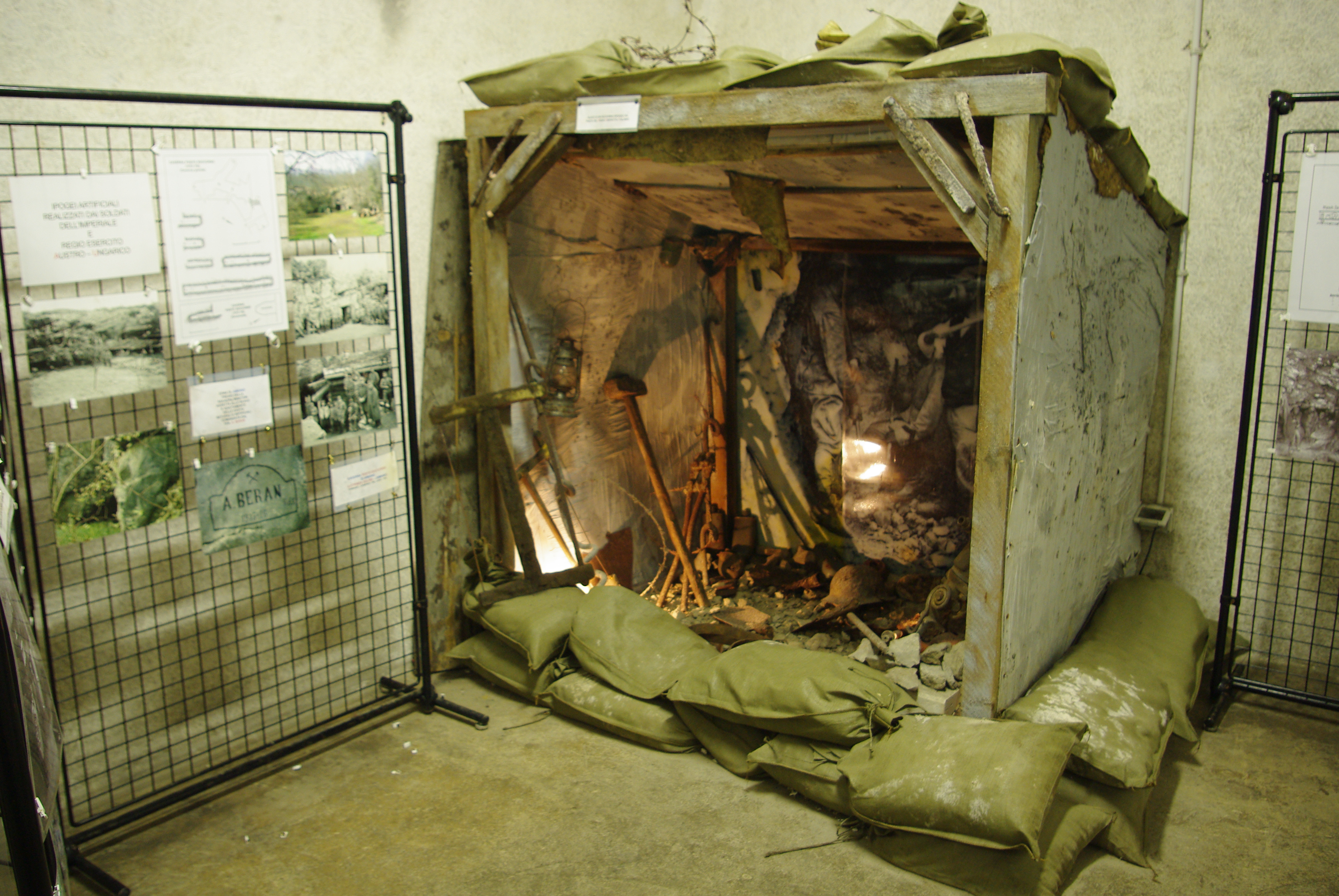 Air-raid shelter in Trieste, exposition room.